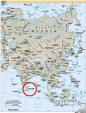 map of Asia indicating location of Sri Lanka